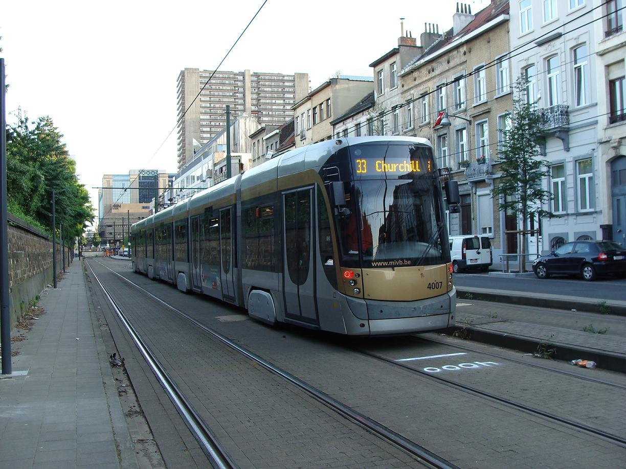 Motor coach 4007 of line 3 parked with the Garage Progrès runs under code 33 for its last passage towards Churchill.